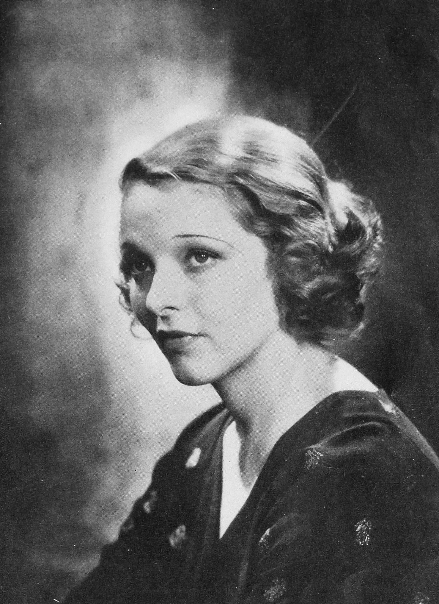 Portrait of Sally Blane by Will Connell